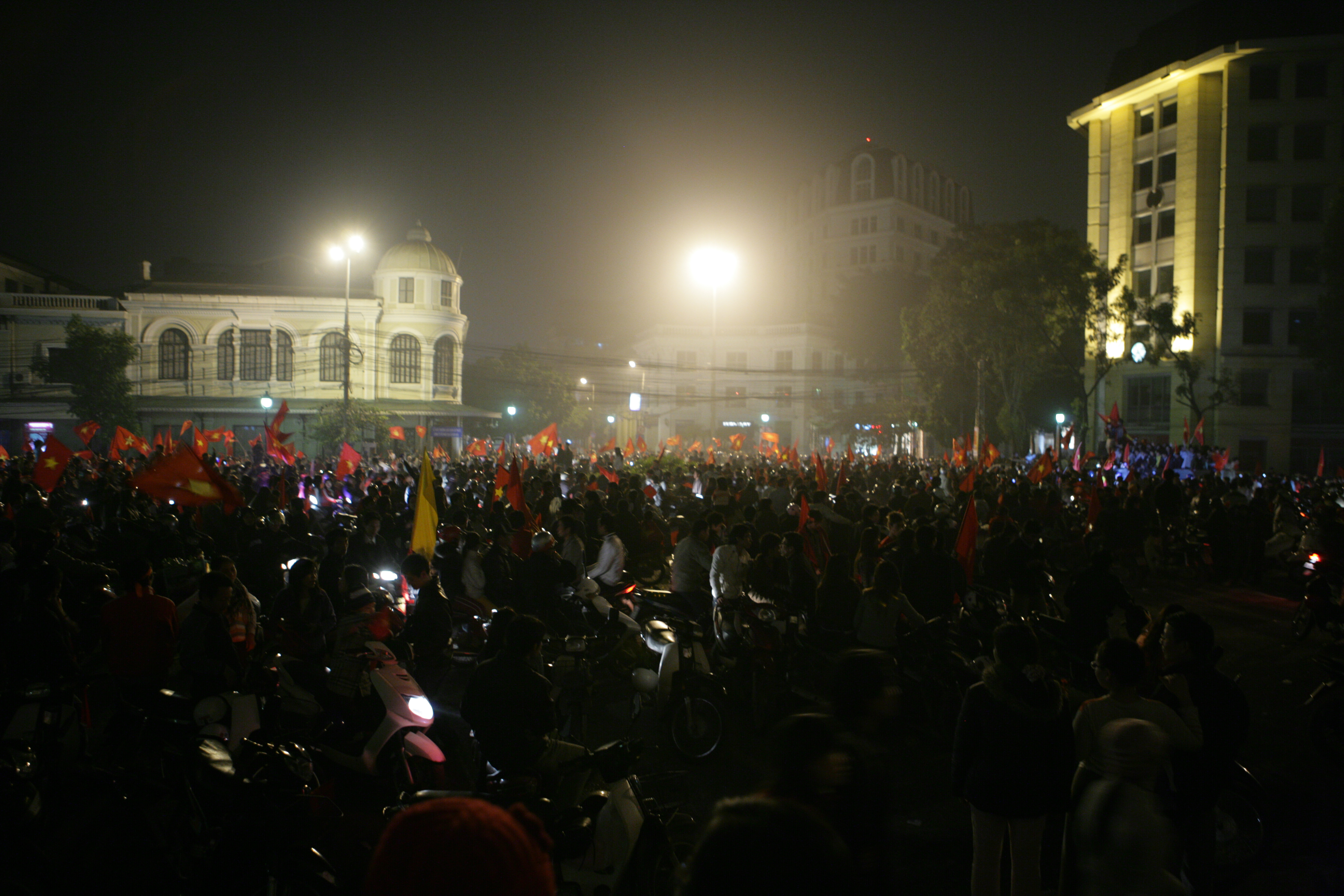 Vietnamese people go out all night because Vietnamese football team become Asian Champion